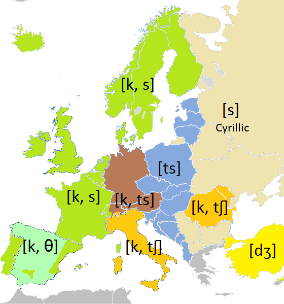 Pronunciation of written in European languages